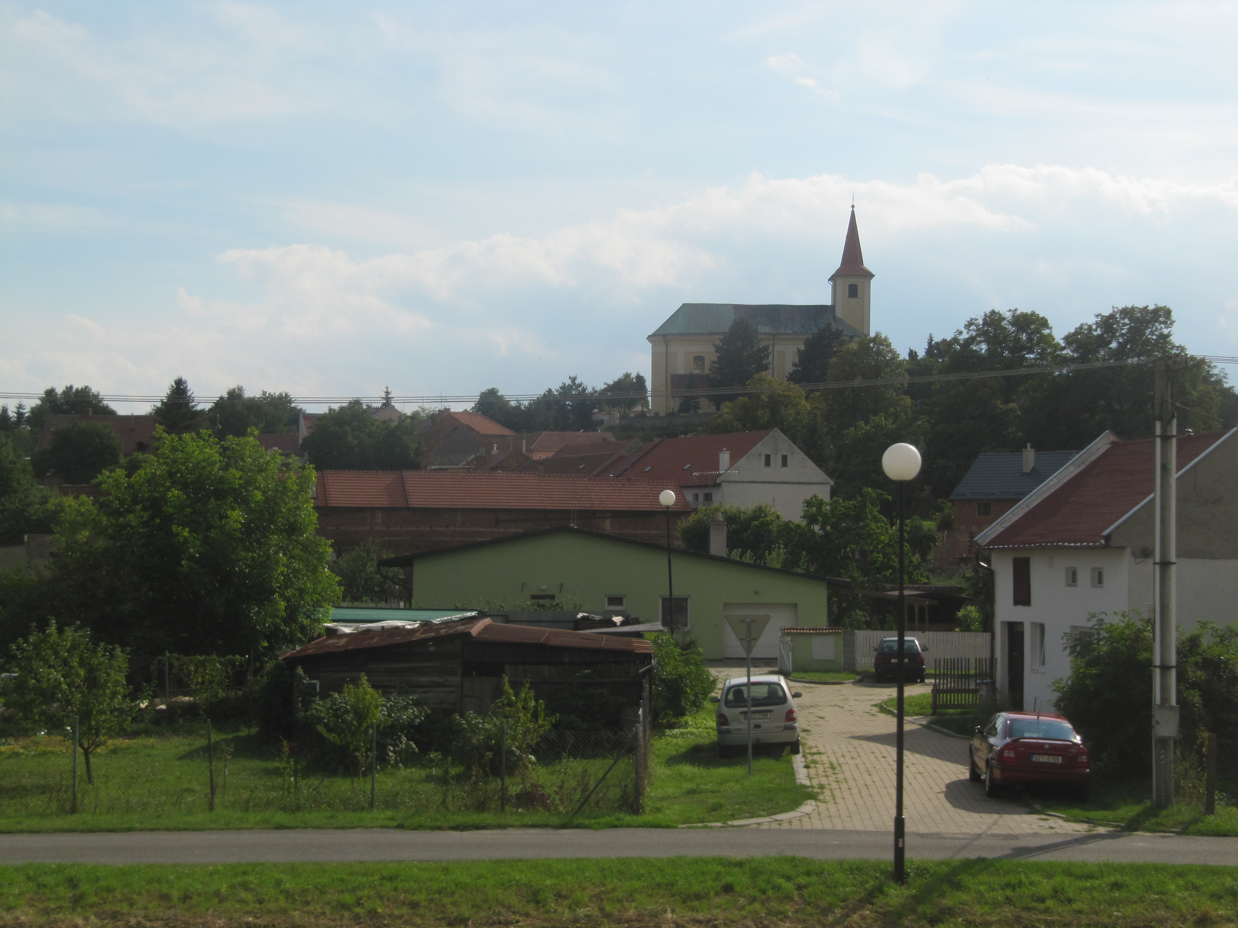 Kroměříž, Czech Republic, part Hradisko. All Saints Church, view from the railway track.